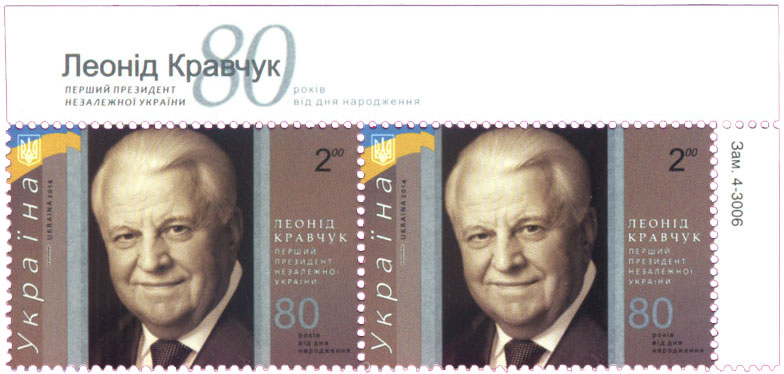 Stamp of Ukraine, 2014